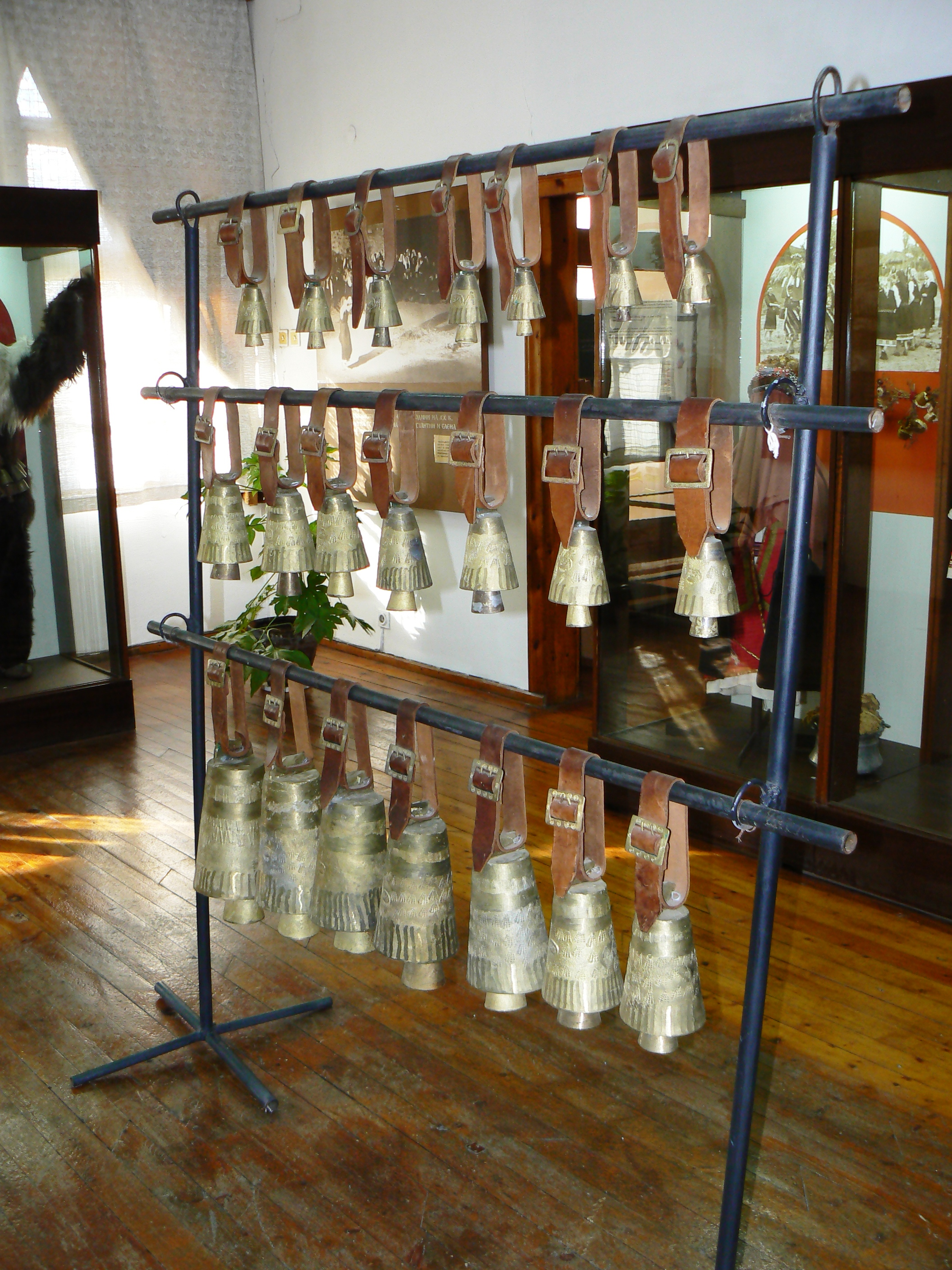 Sheep / cow bells, Burgas ethnographic museum